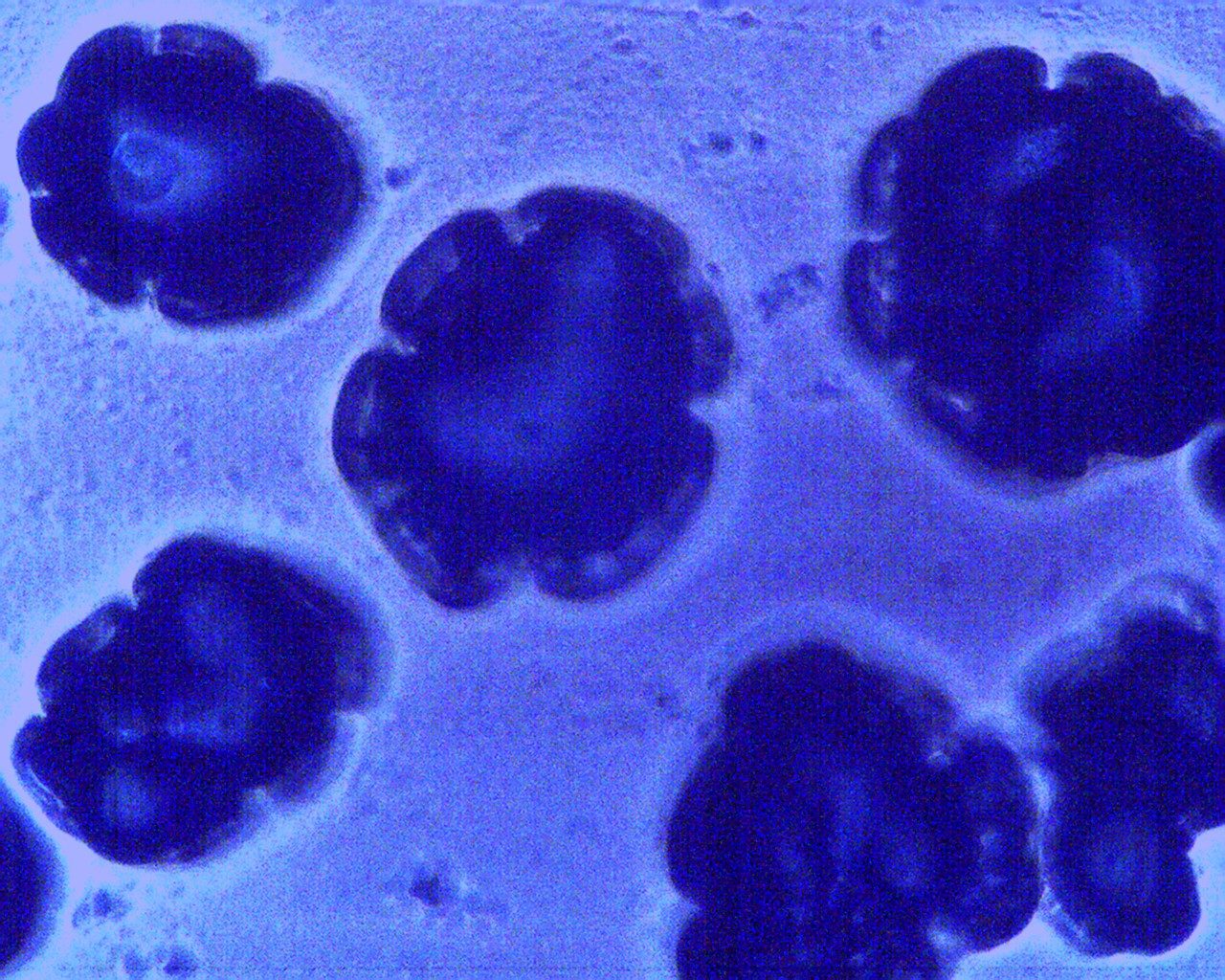 Mutans Streptococci colonies on Mitis Salivarius agar under light microscope (x400)